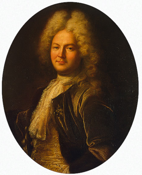 Portrait of count Andrey_Artamonovich Matveev (1666—1728)